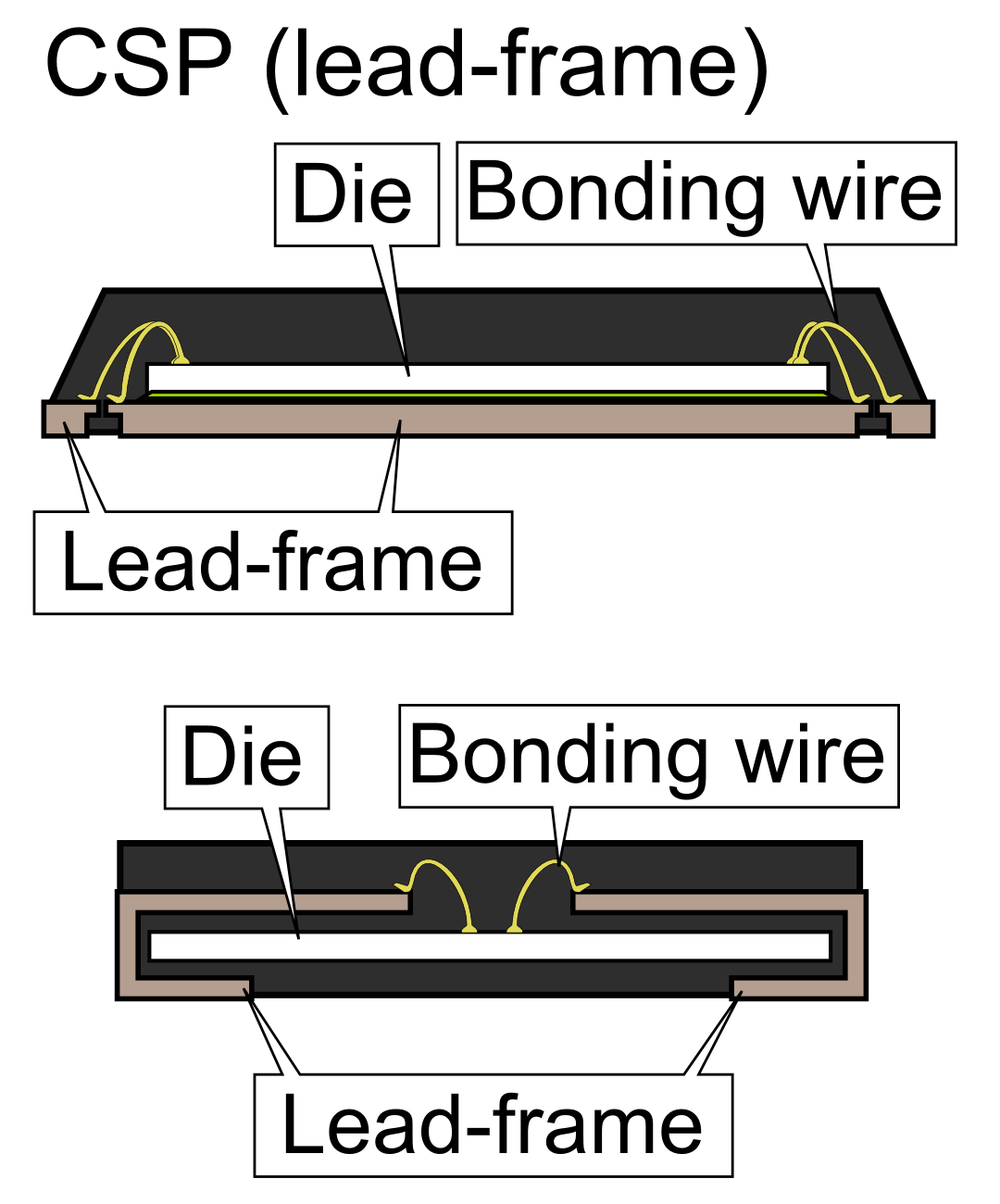 CSP(lead-frame) package sideview